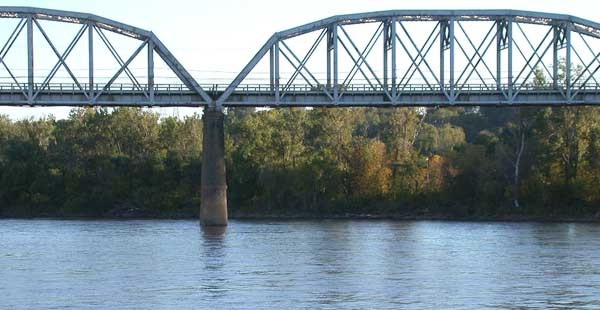 Union Pacific Missouri River Bridge